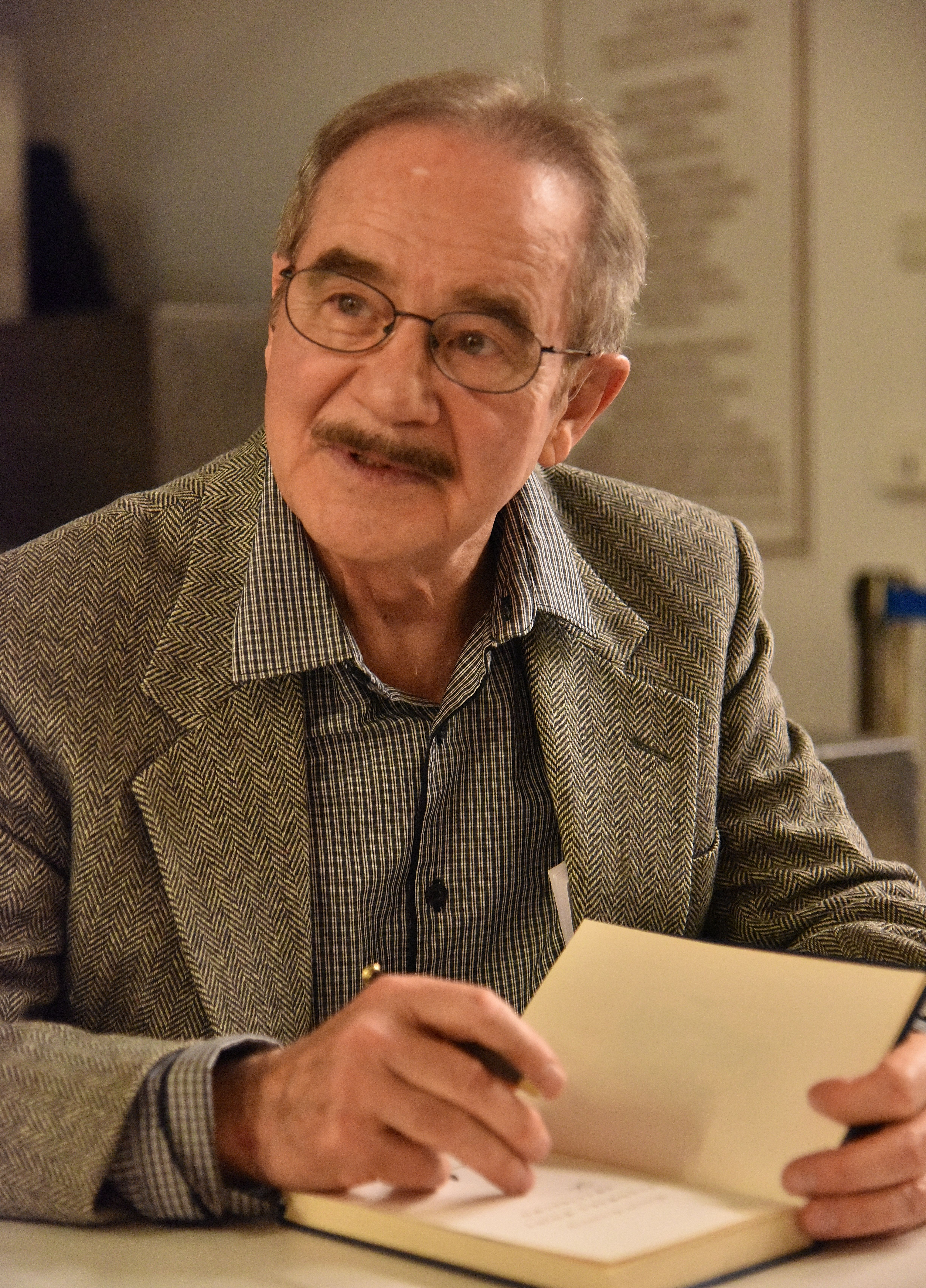 Henryk Grynberg during a meeting in "Thursdays at Tłomackie Street" series at the Jewish Historical Institute in Warsaw